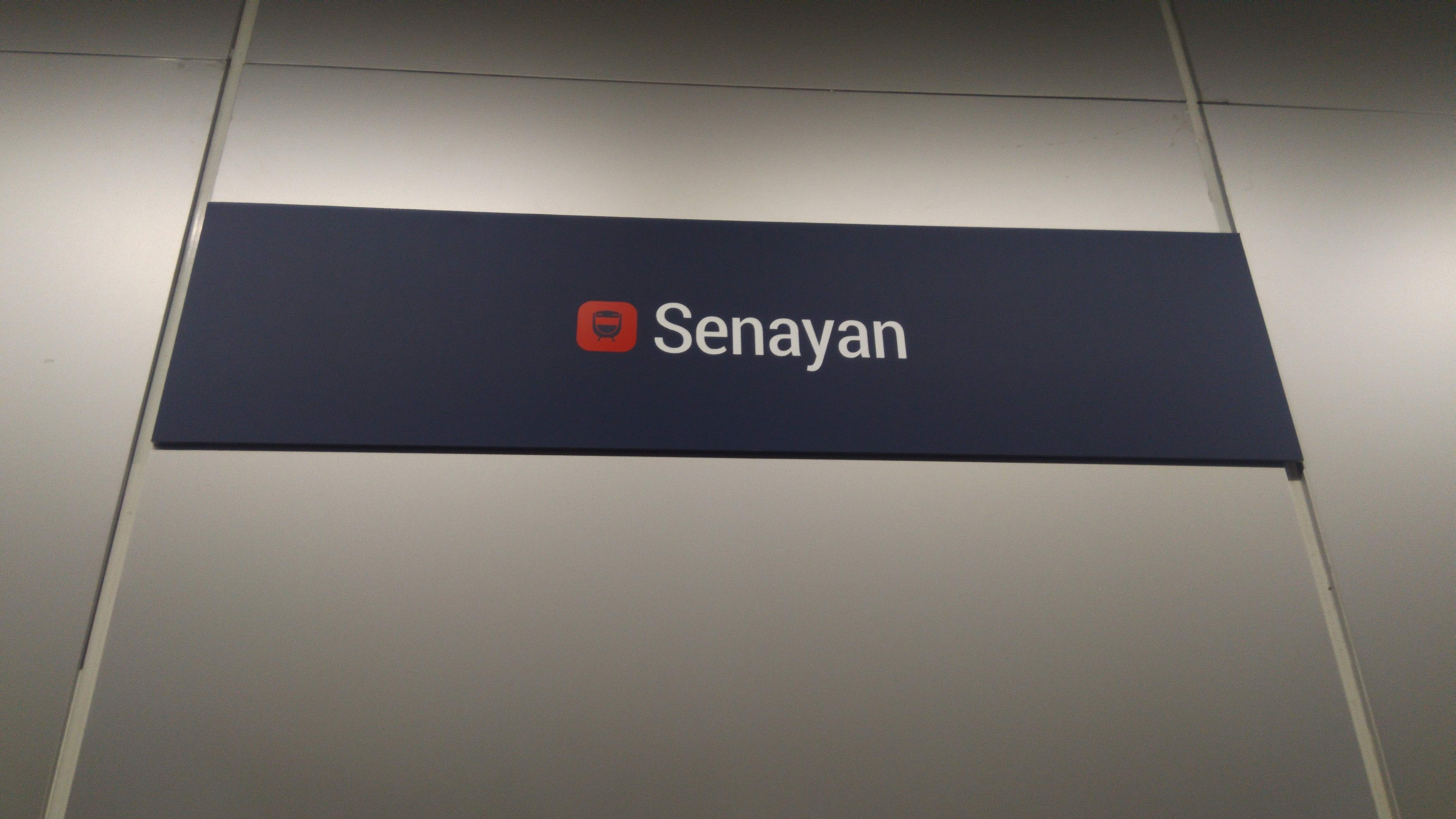 Jakarta MRT Senayan MRT Station signage